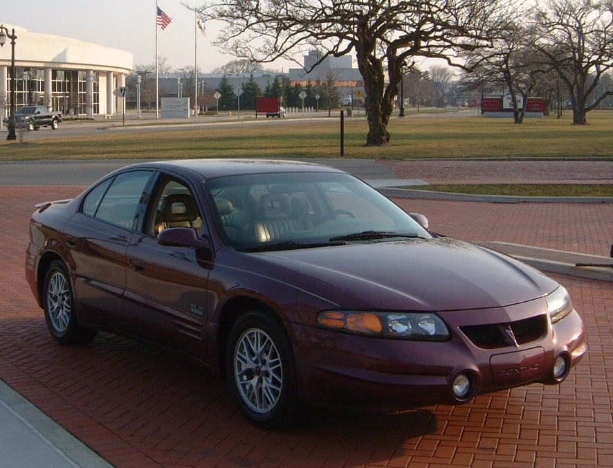 2000 Pontiac Bonneville SLE taken March 30, 2006 by the Henry Ford Museum and Greenfield Village, Detroit, Michigan, USA, by chris_goulet